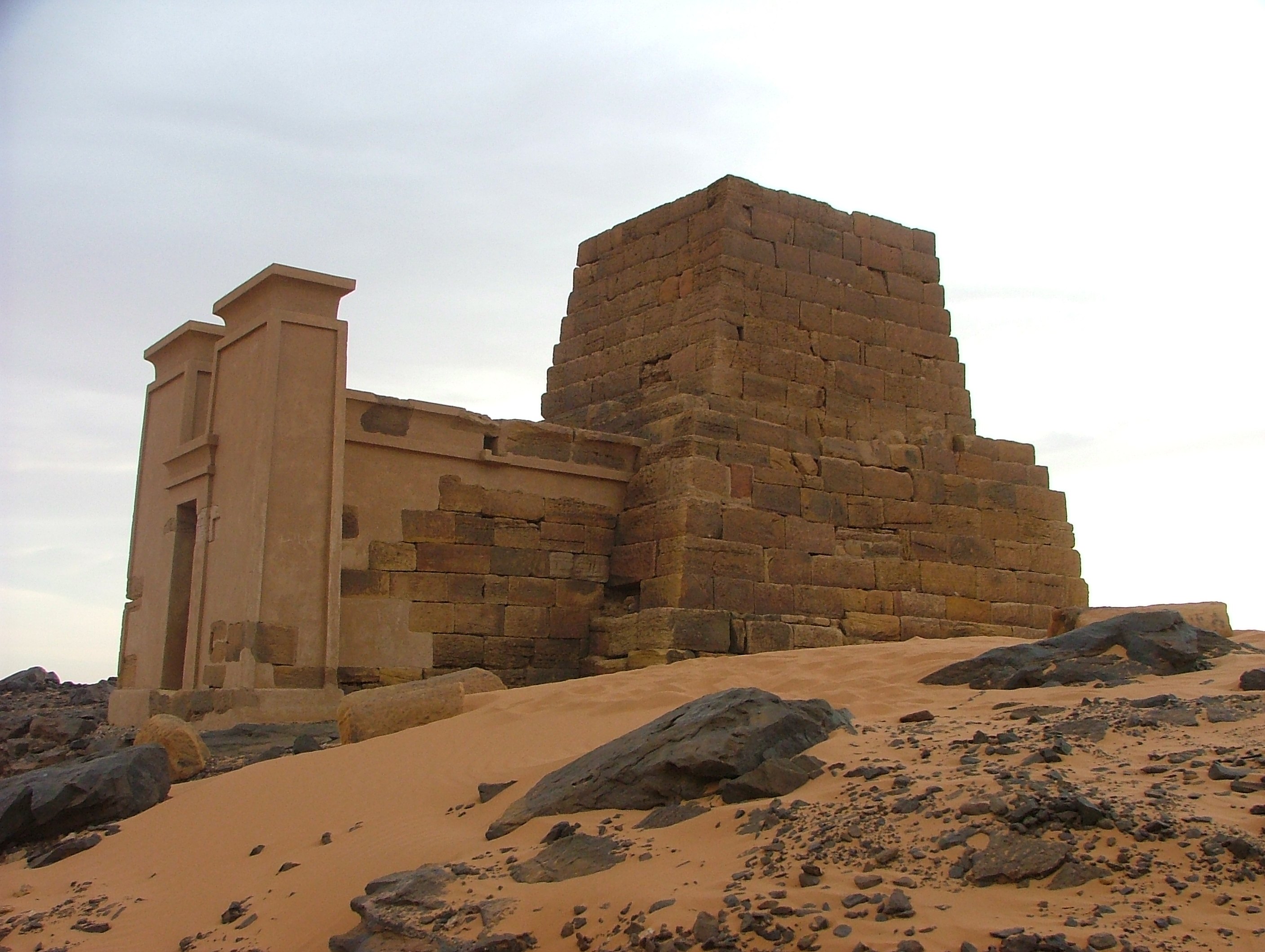 Amanitore pyramid. N1